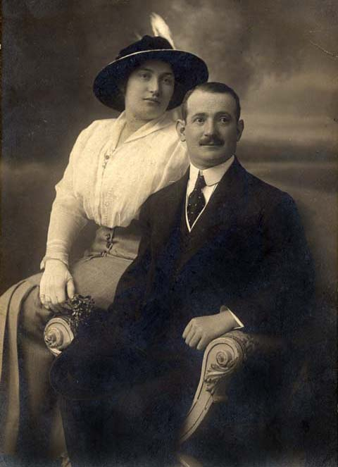 Sarah Aaronsohn and her husband Chaim Abraham in Baku